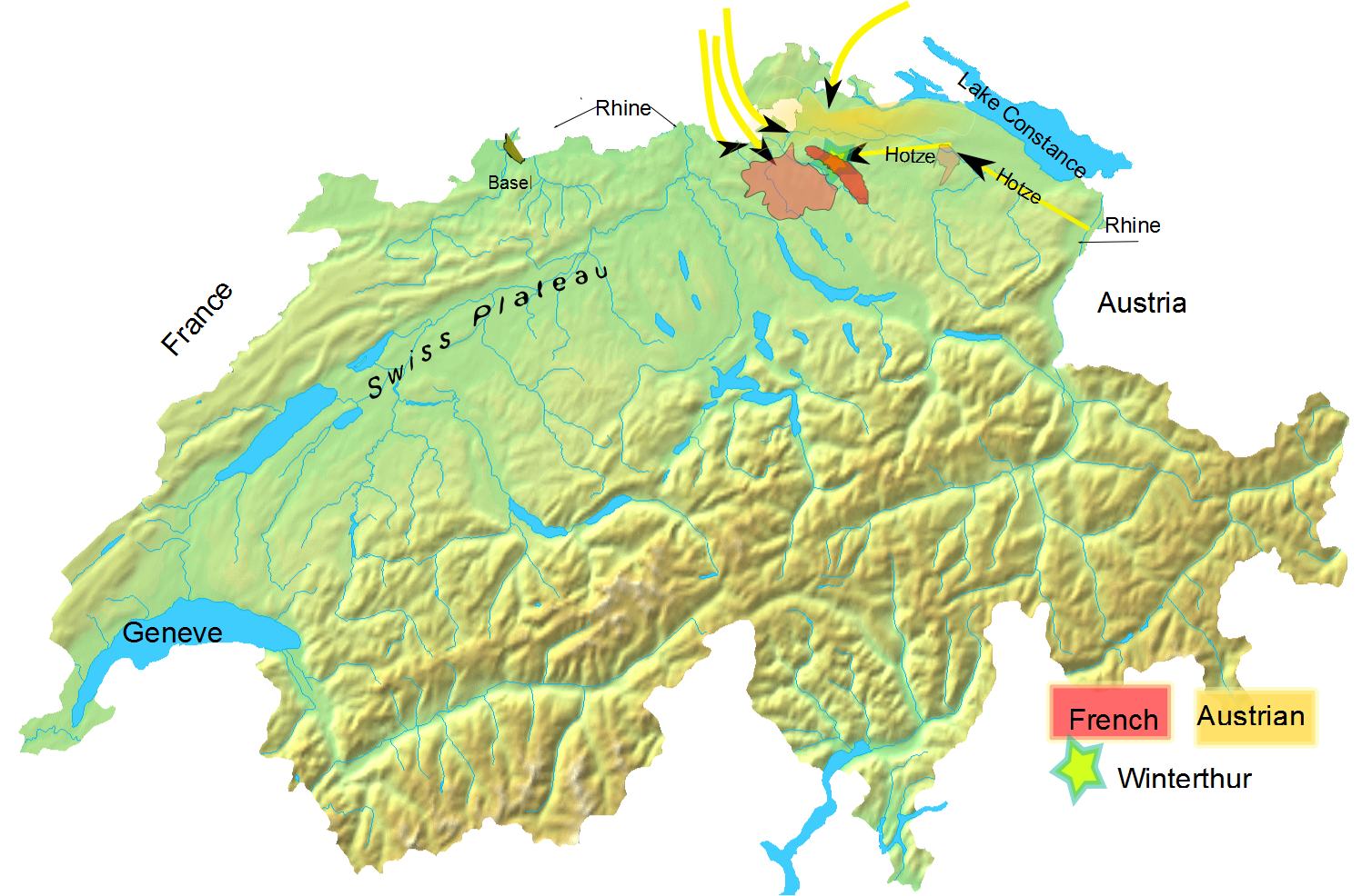 Overall troop positioning in late May 1799 for Battle of Winterthur